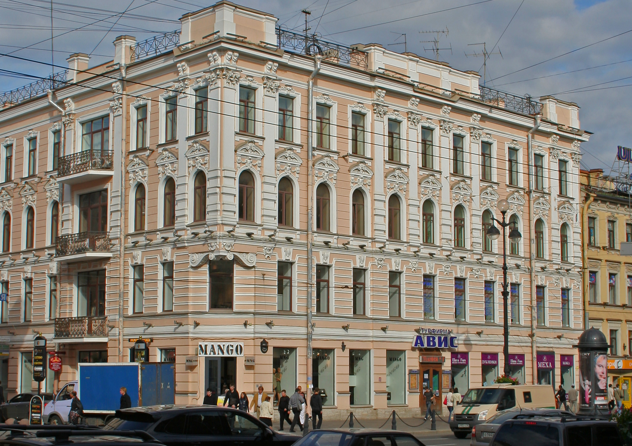 The Nevsky Prospekt in Saint Petersburg. House number 92.